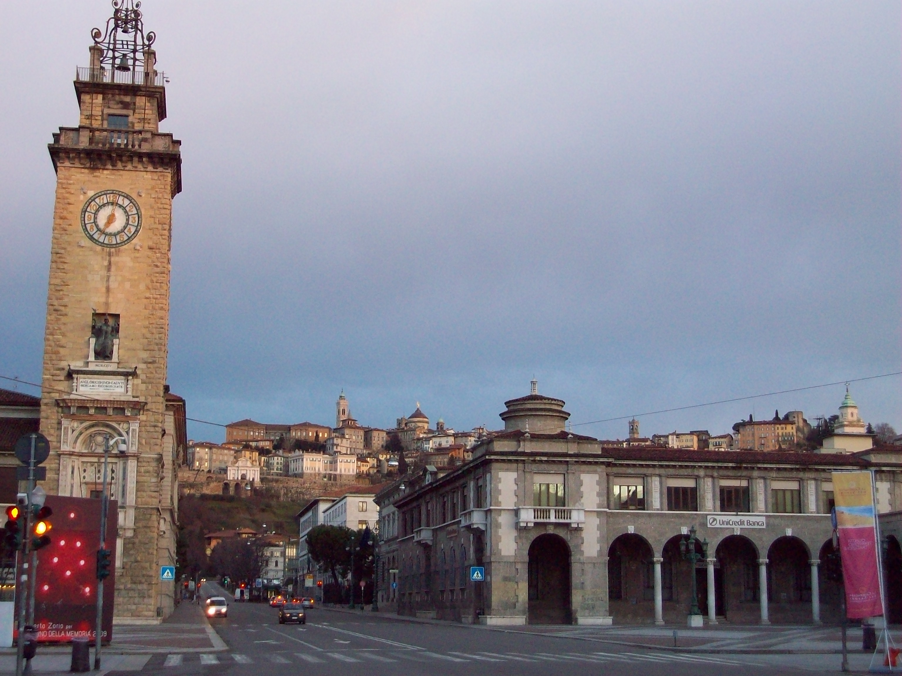 via Roma, Bergamo; view over the Old Town